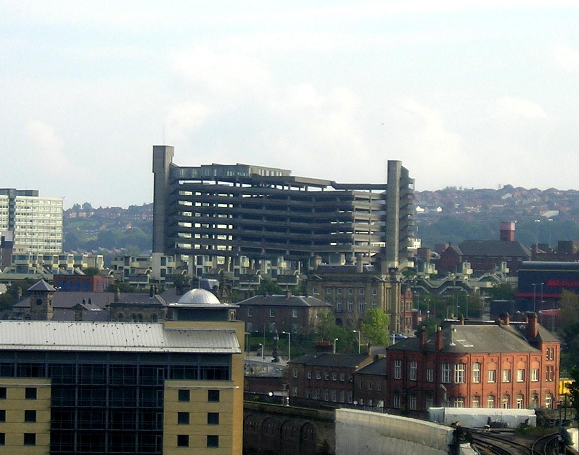 Trinity Centre Multi-Storey car park (seen from Newcastle Castle Keep)